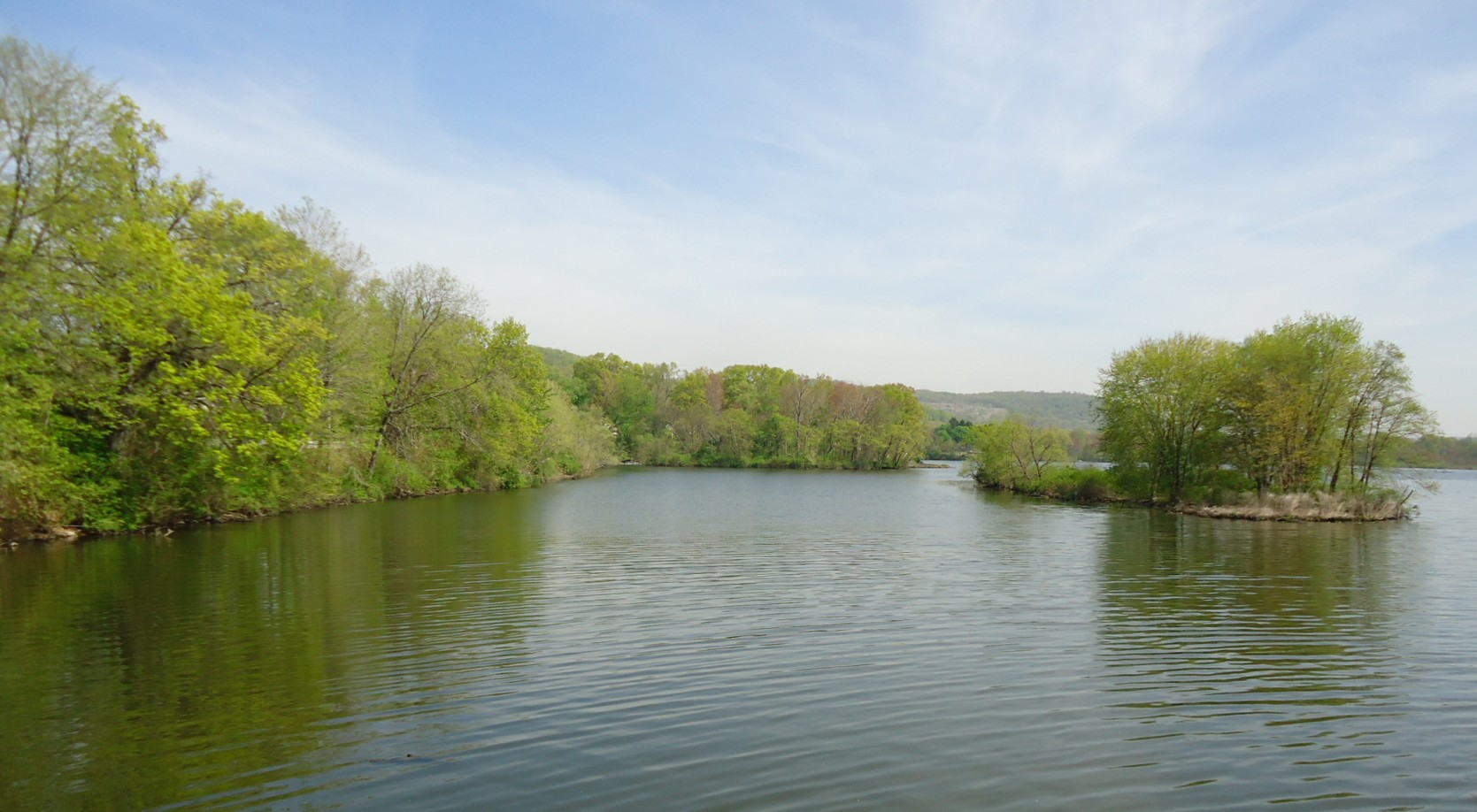 Looking north from the bridge over Pompton Lake in Pompton Lakes, NJ.